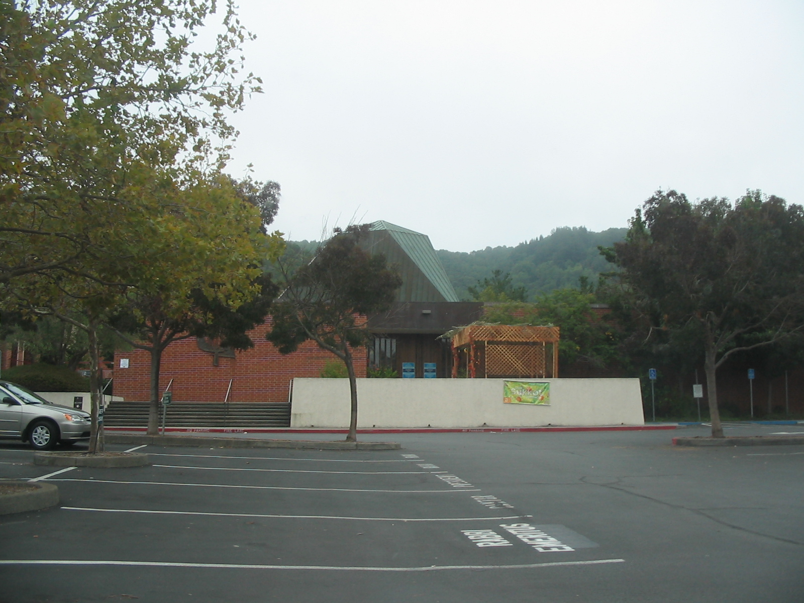 Outside of Congregation Rodef Sholom San Rafael during Sukkot 5770 (2009)